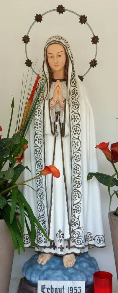 Schagerl Fatima